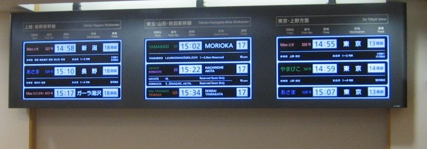 Train Schedule Display Board (LCD) in JR East Ōmiya Station